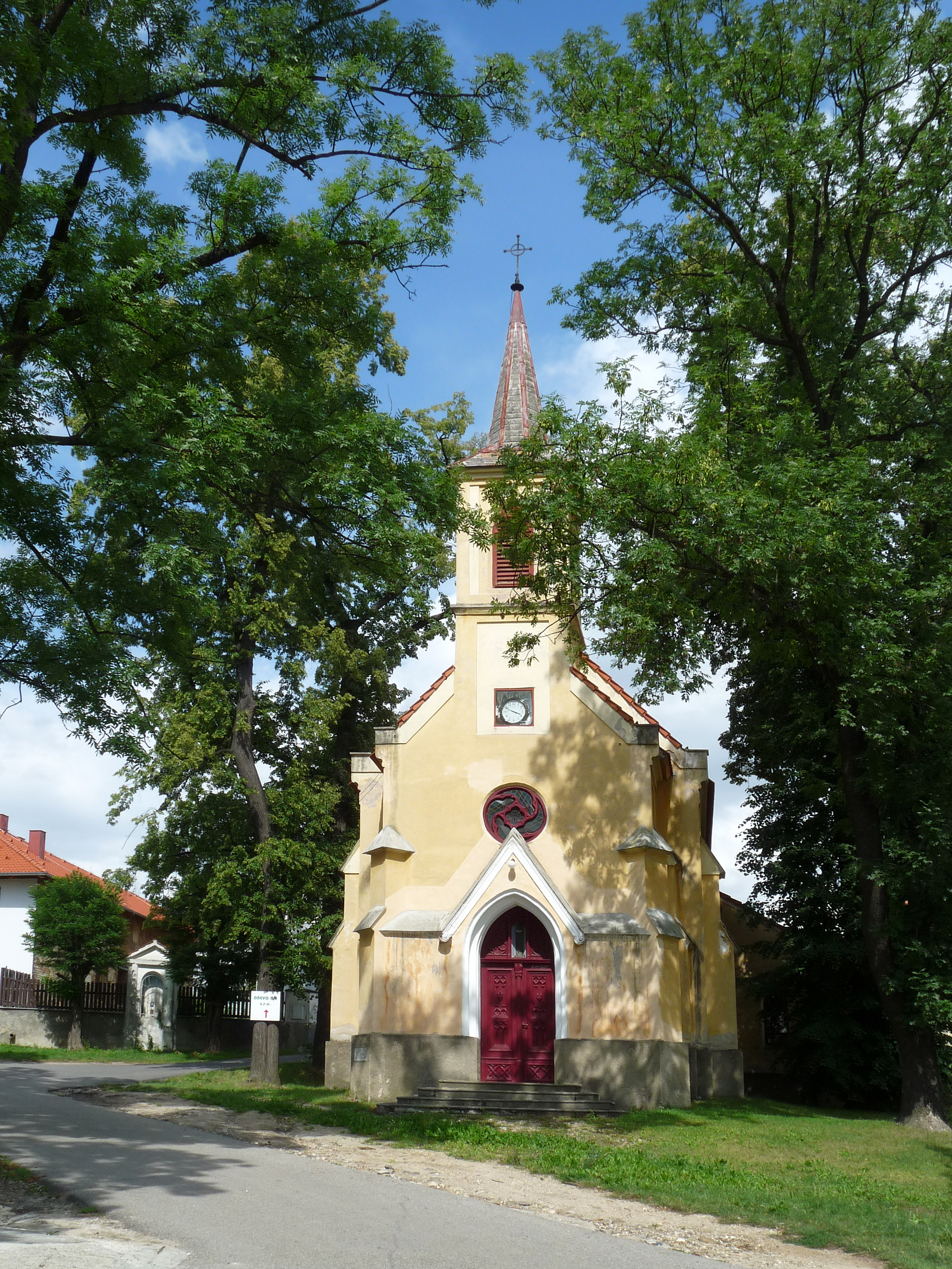 Chapel in Mladé, part of České Budějovice, Czech Republic.